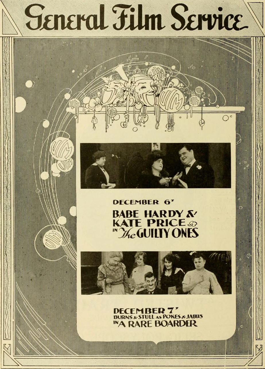 Advertisement inMoving Picture World